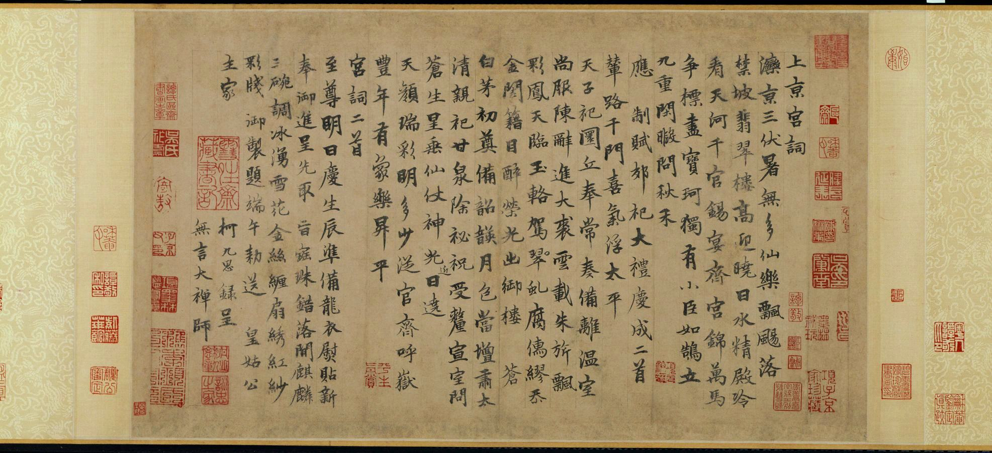 Ke Jiusi, Palace Poem, 30,5x53cm, Princeton University Art Museum.